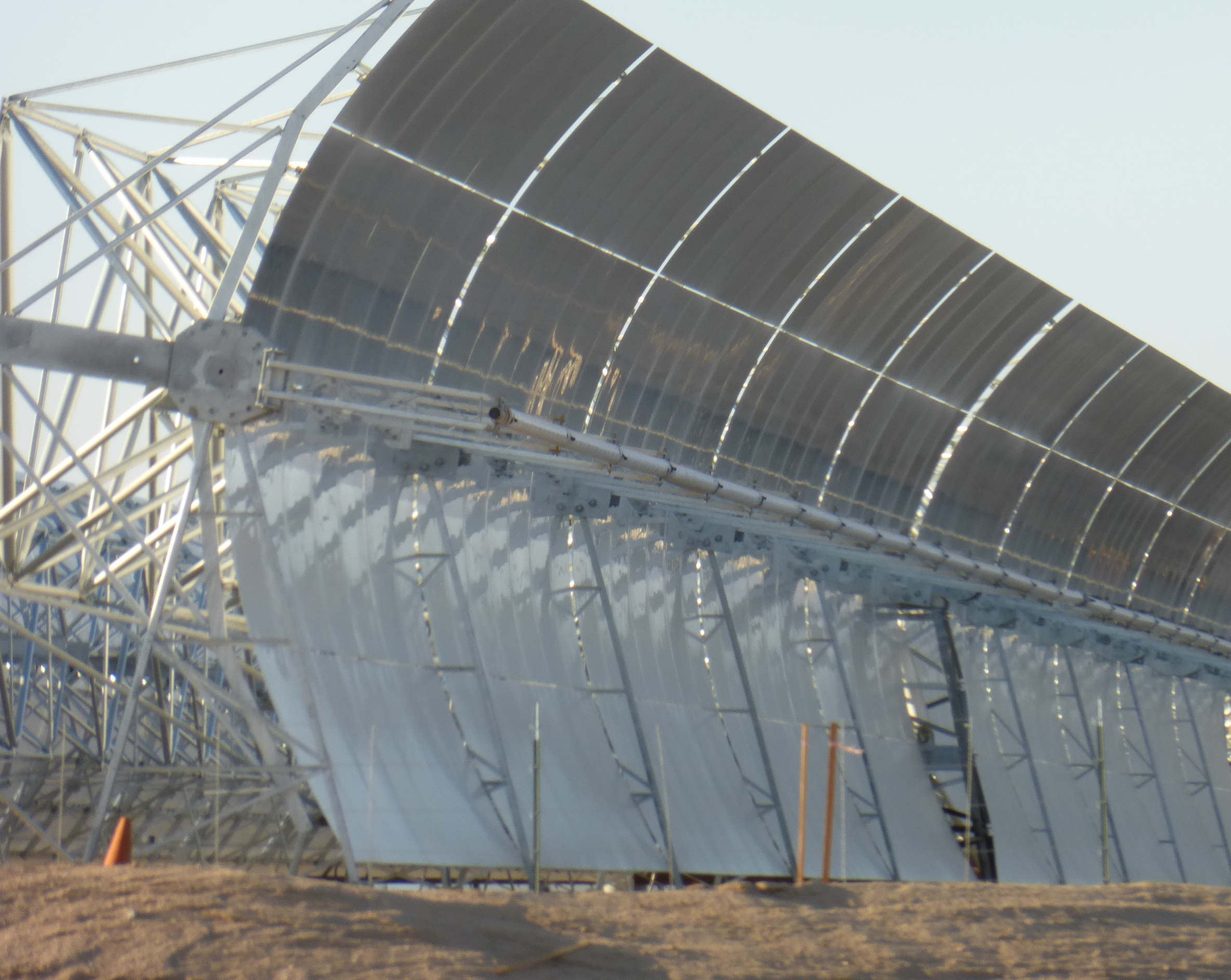 Parabolic trough used in a concentrated solar power plant at Lockhart near Harper Lake in California (Mojave Solar Project)